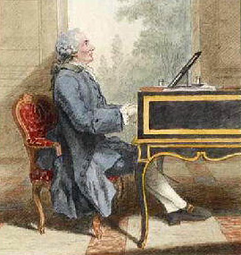 Detail from a portrait of Egidio Duni (1708 – 1775) at his keyboard